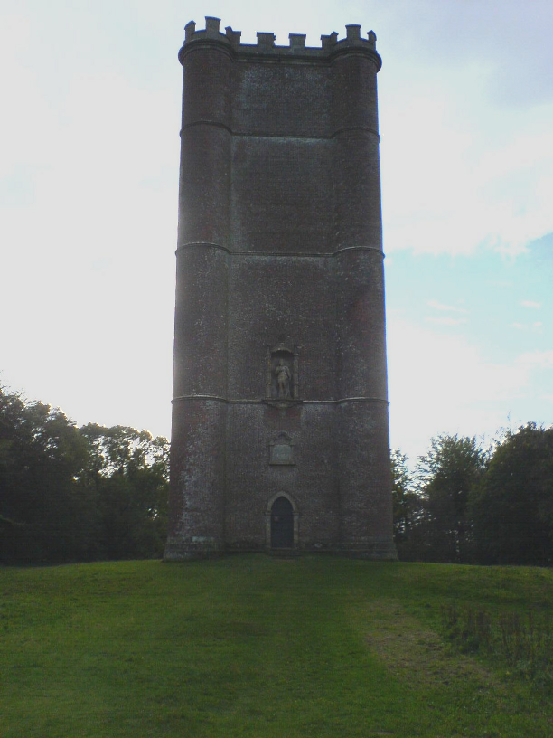 King Alfred's Tower in Brewham, Somerset, near Stourhead, Wiltshire, England. View of the entrance from the south east. I took this photo.